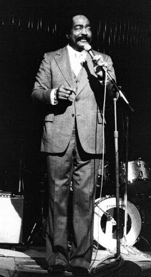 American blues singer Jimmy Witherspoon in Paris, France.